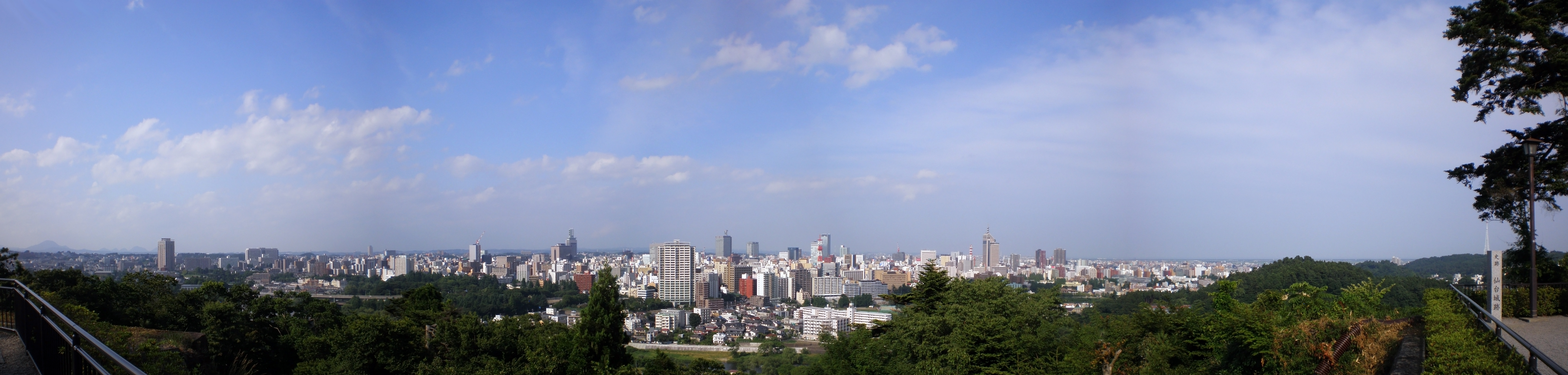 A panorama picture of Sendai, taken by me as a tourist at Sendai Castle.